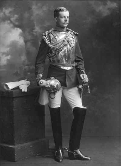 3rd Bron Belper, 1907, in full dress uniform, 2nd Lieutenant, 2nd Life Guards